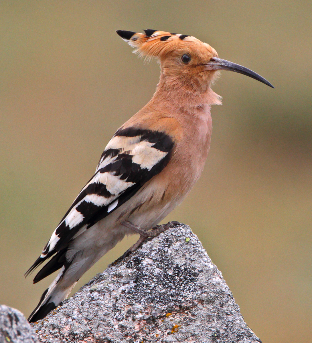 Hoopoe